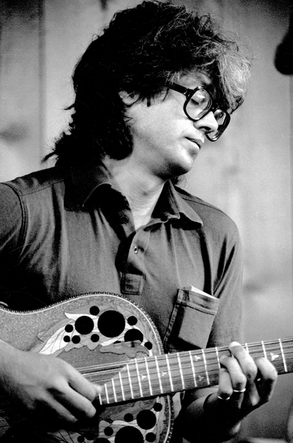 Larry Coryell at Bach Dancing&Dynamite Society, Half Moon Bay CA 1979. Photo: Brian McMillen /